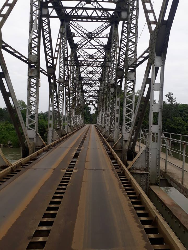 Oneida Bridge, 2018